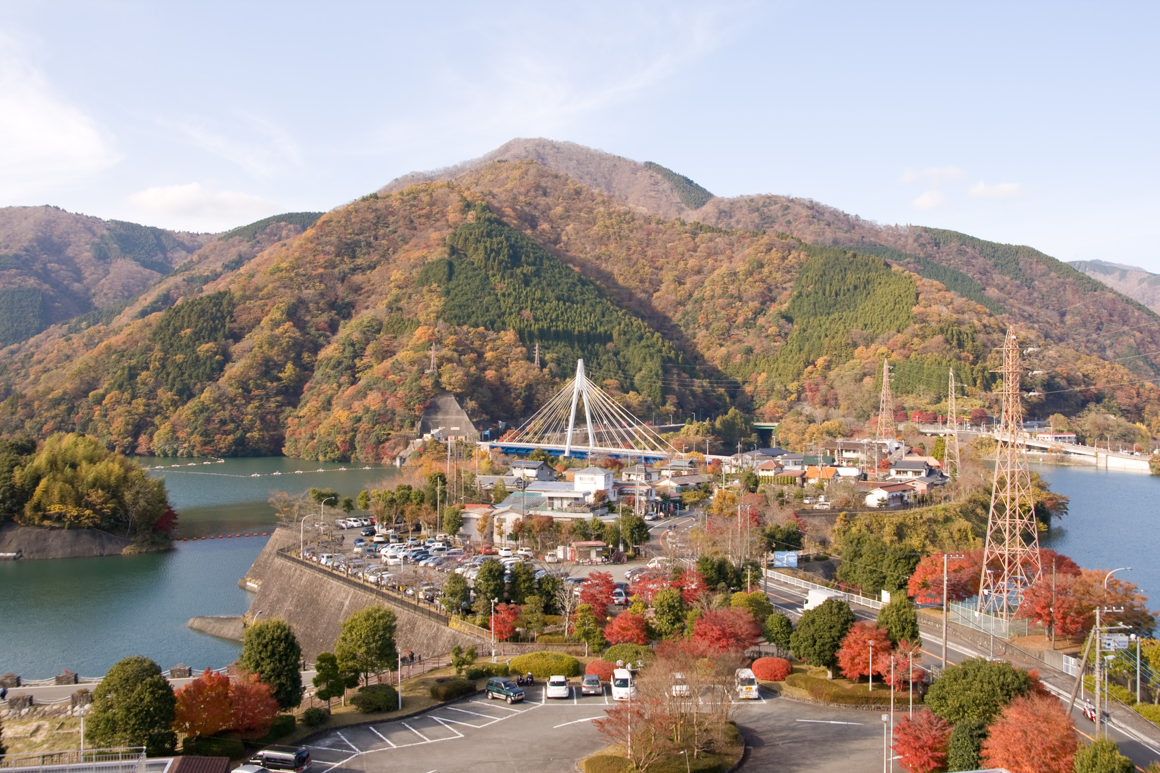 Mt.Gongen in Yozuku, Yamakita Town, Kanagawa Pref., Japan.